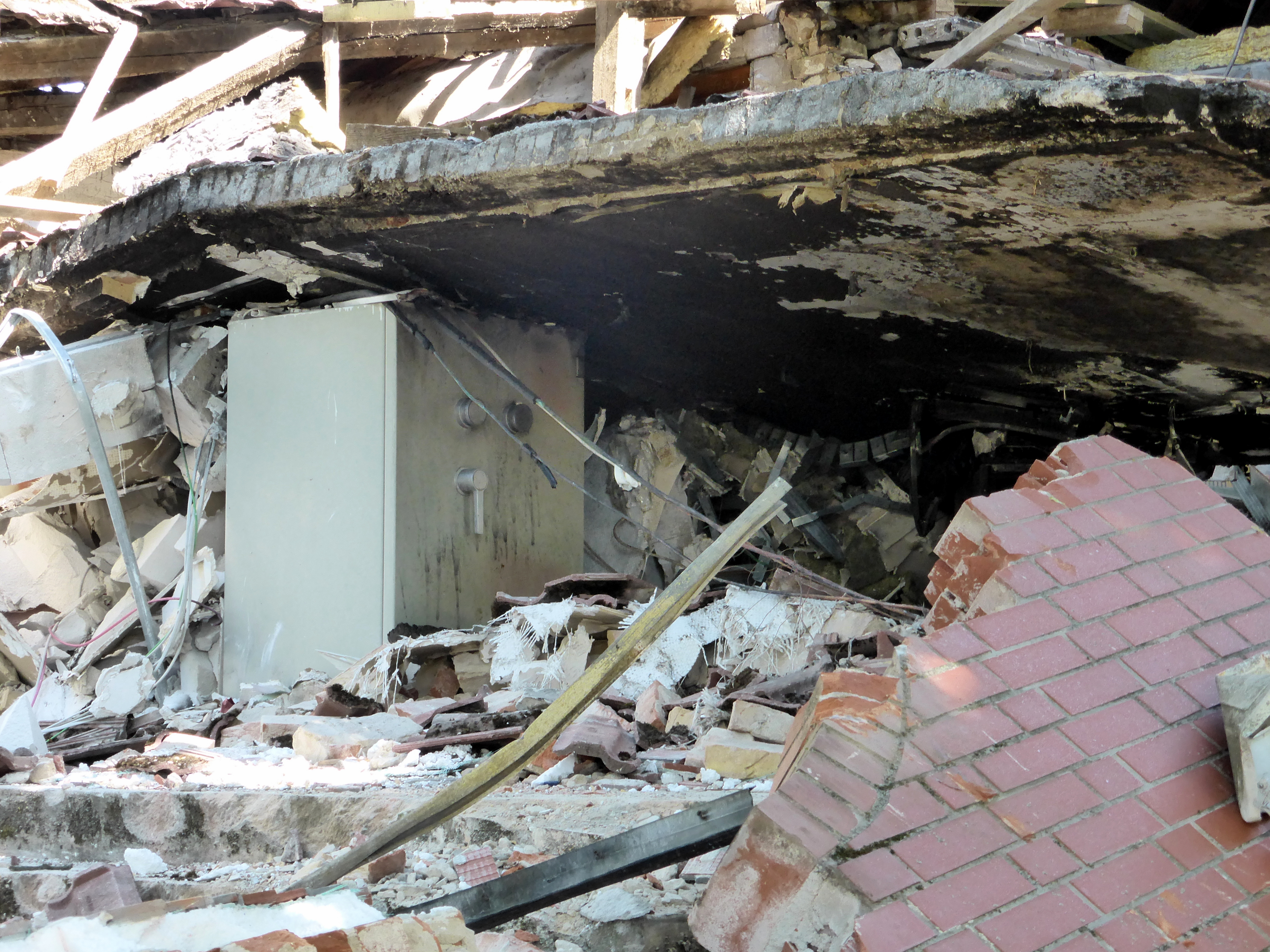 In an attempt to bust open an ATM machine in the middle of the night, the thieves miscalculated and busted the whole bank building of the Bank in Vehlefanz.